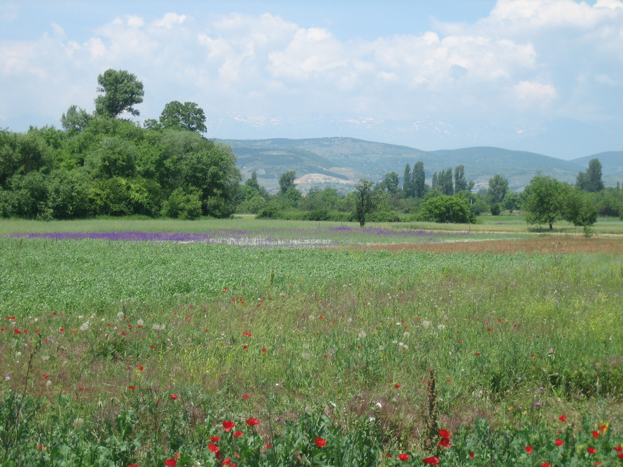 Wild poppy fields are scattered throughout the neighborhood. The village, Bardovci, about 3 kilometers northwest of downtown Skopje, is famous for them.